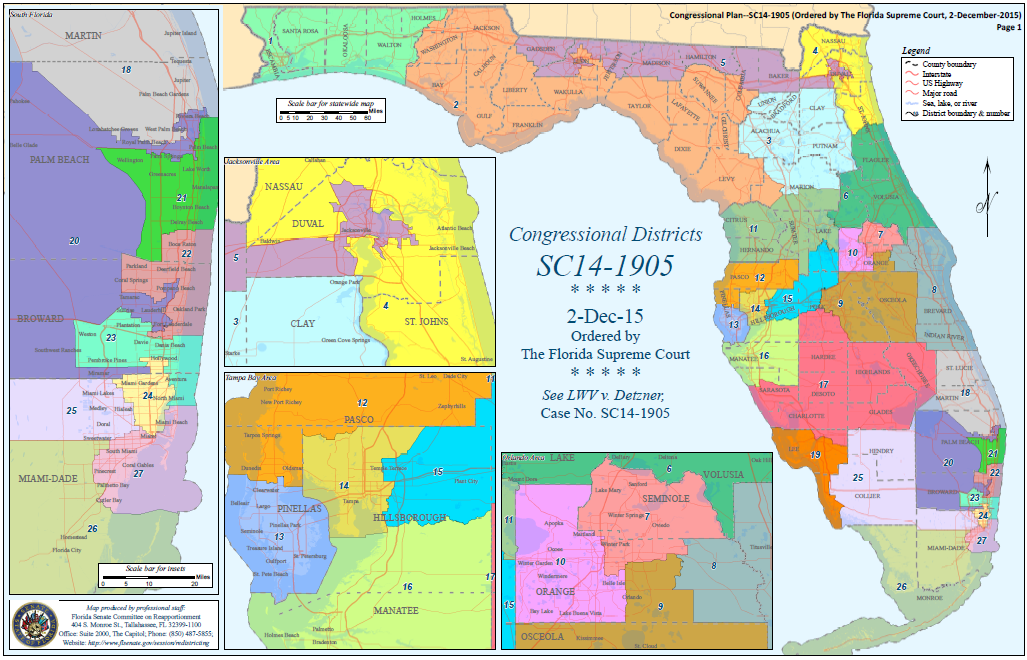 This is the new map of the U.S. Congressional districts is Florida, following a court ruling. This map will go into effect for 2016, 2018, and 2020 elections.